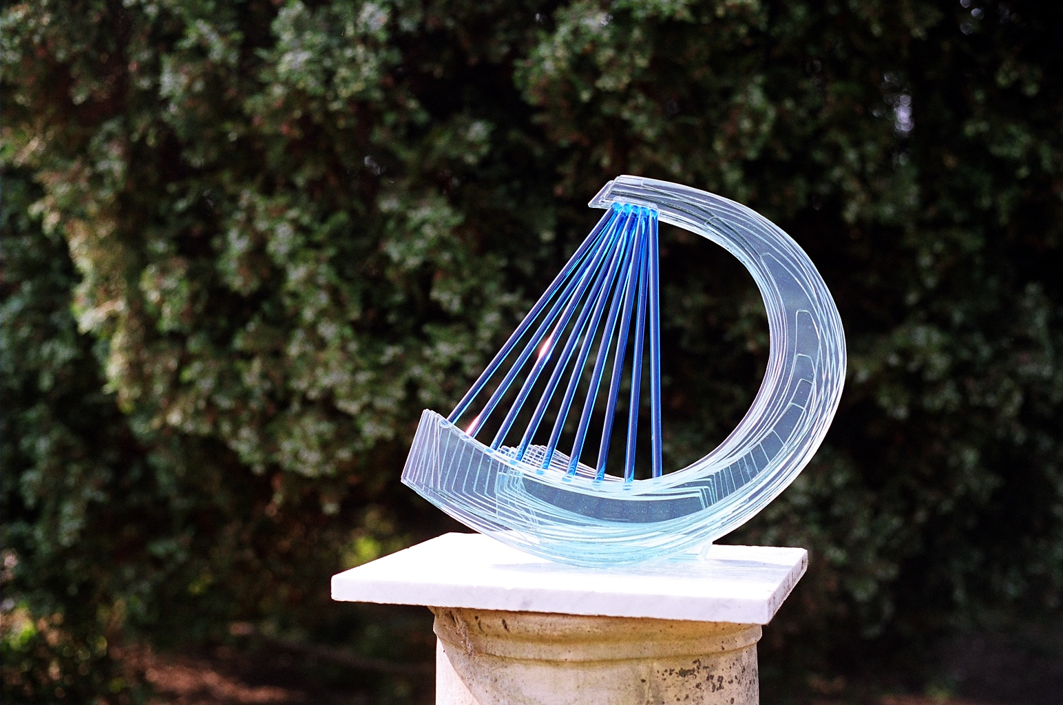 glass sculpture Focus Glass by Peter Newsome, United Kingdom